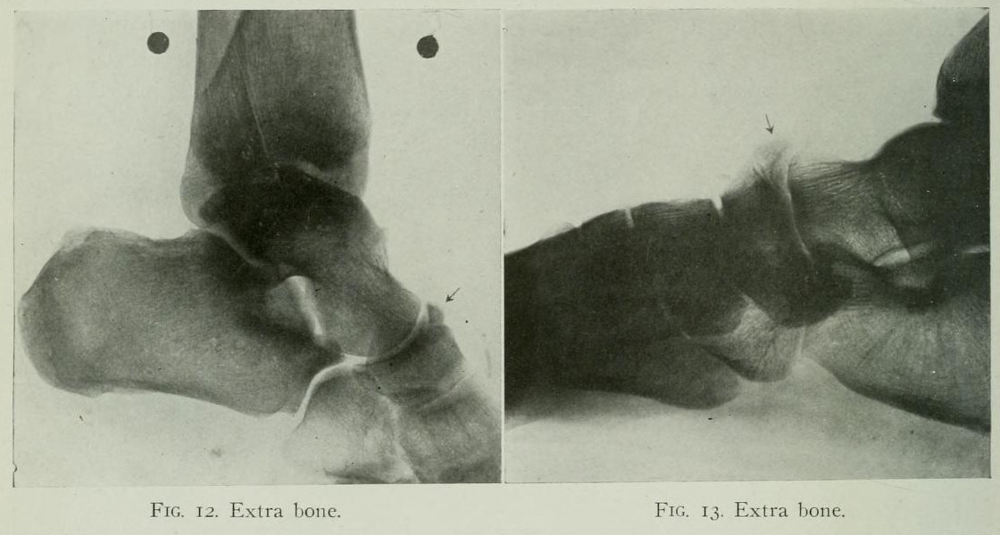 A. Howard Pirie: Extra Bones in the wrist and ankle found by roentgen rays. The American journal of roentgenology, radium therapy and nuclear medicine, Volume VIII, 1921, page 569-573